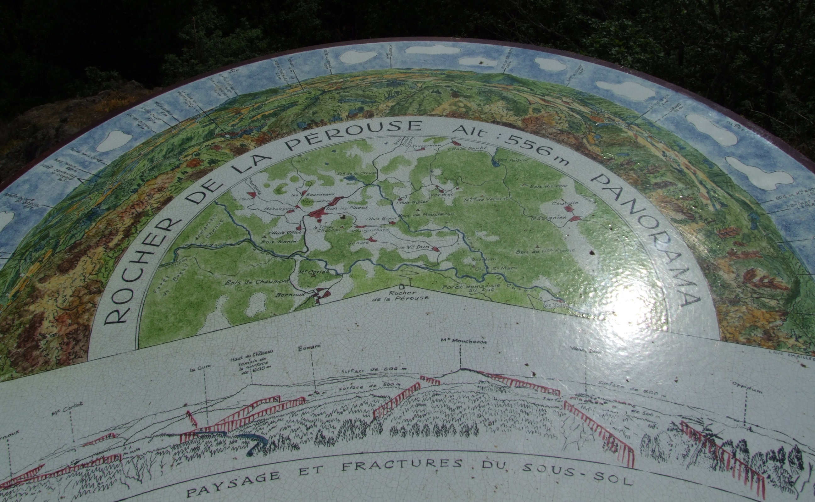 Morvan, Yonne, Burgundy, France